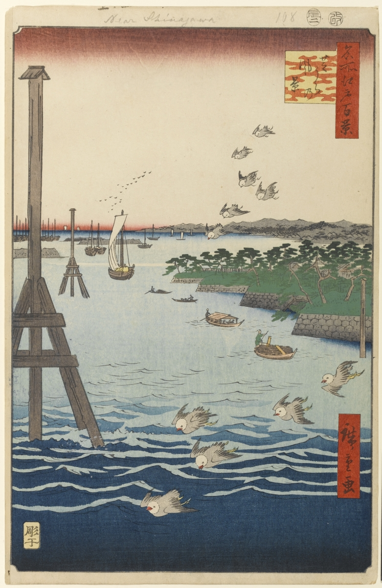 Part of the series One Hundred Famous Views of Edo, no. 108, part 4: Winter.